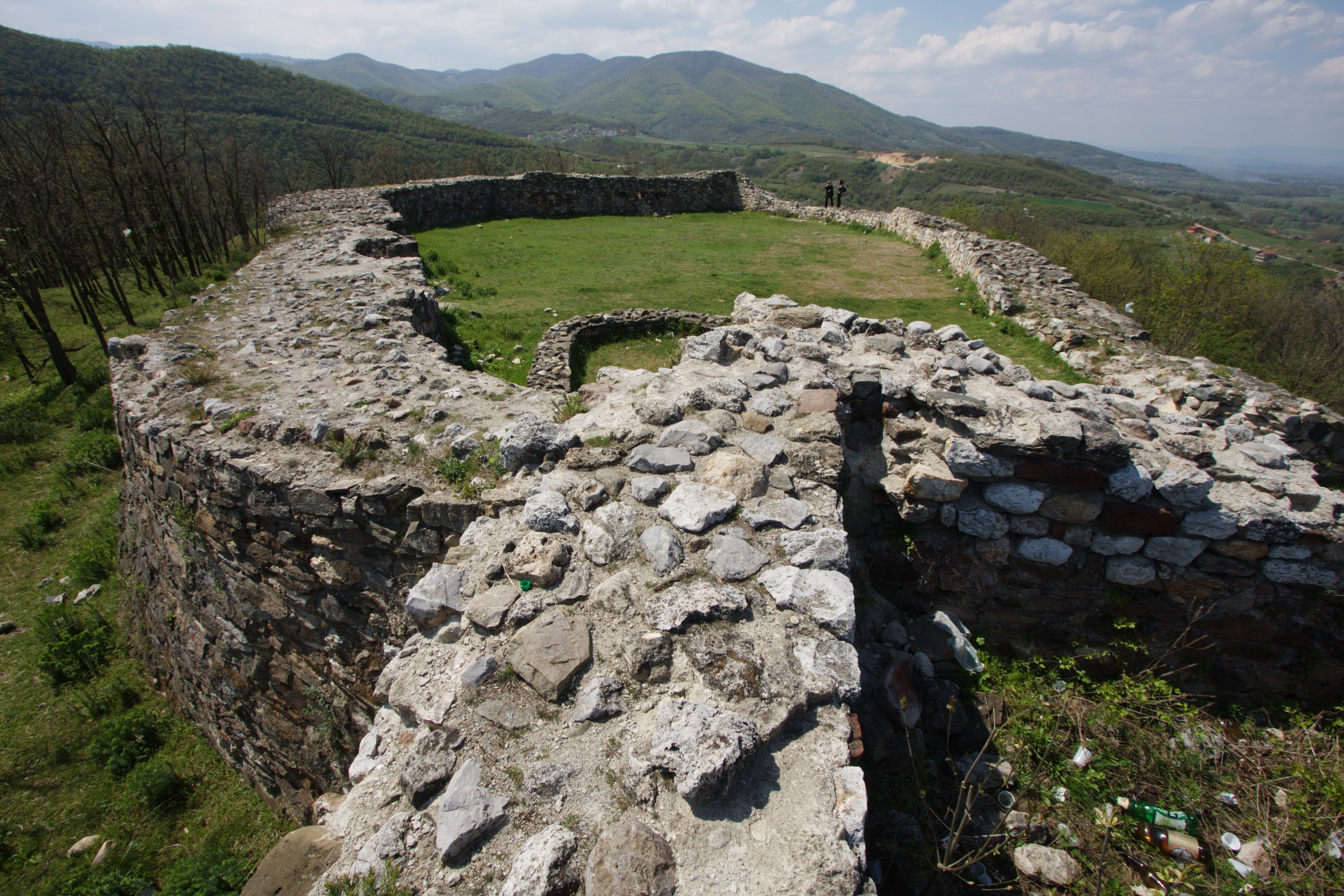 City Hisar in Prokuplje, remains